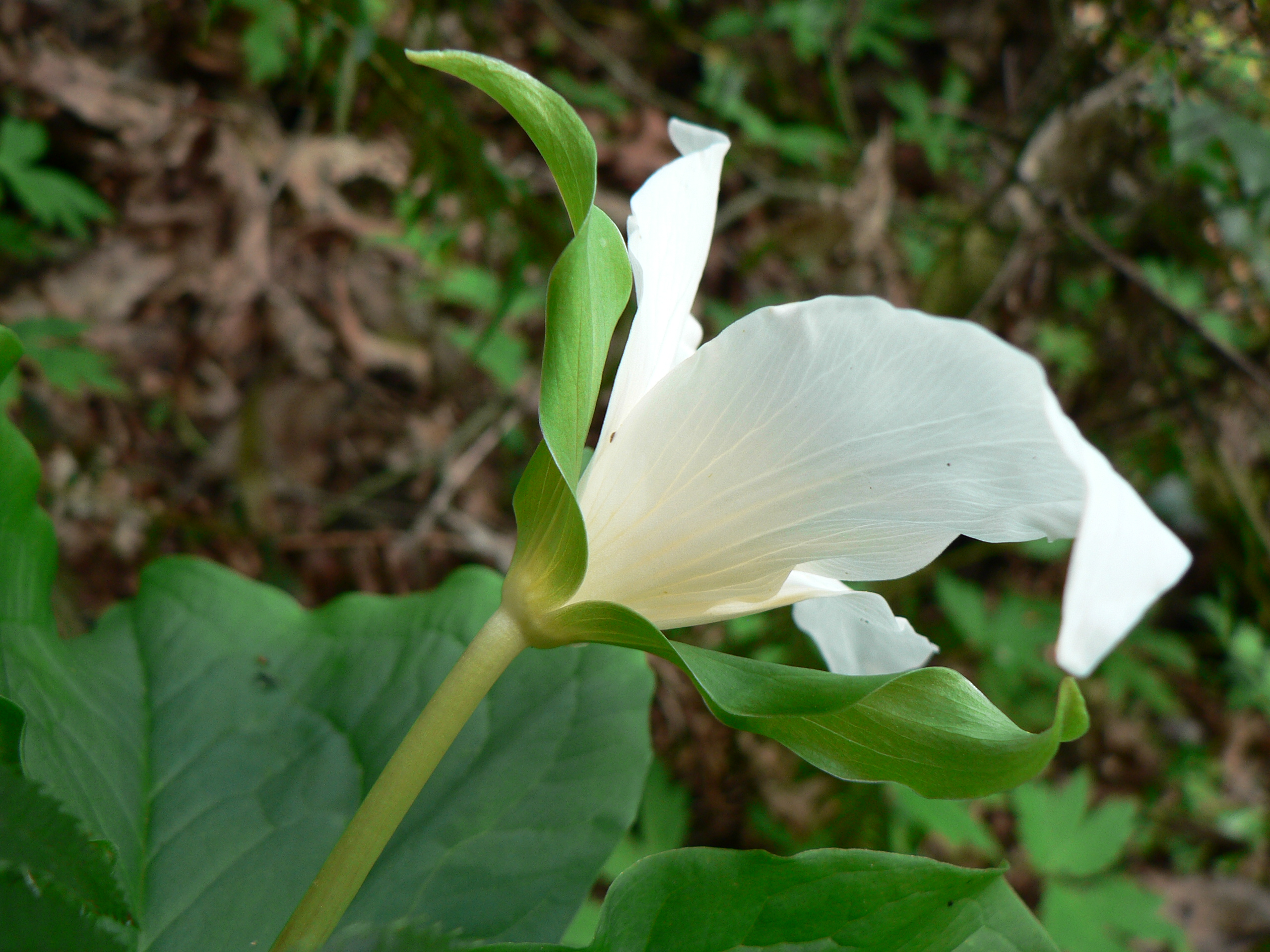 Pacific Trillium, Wakerobin